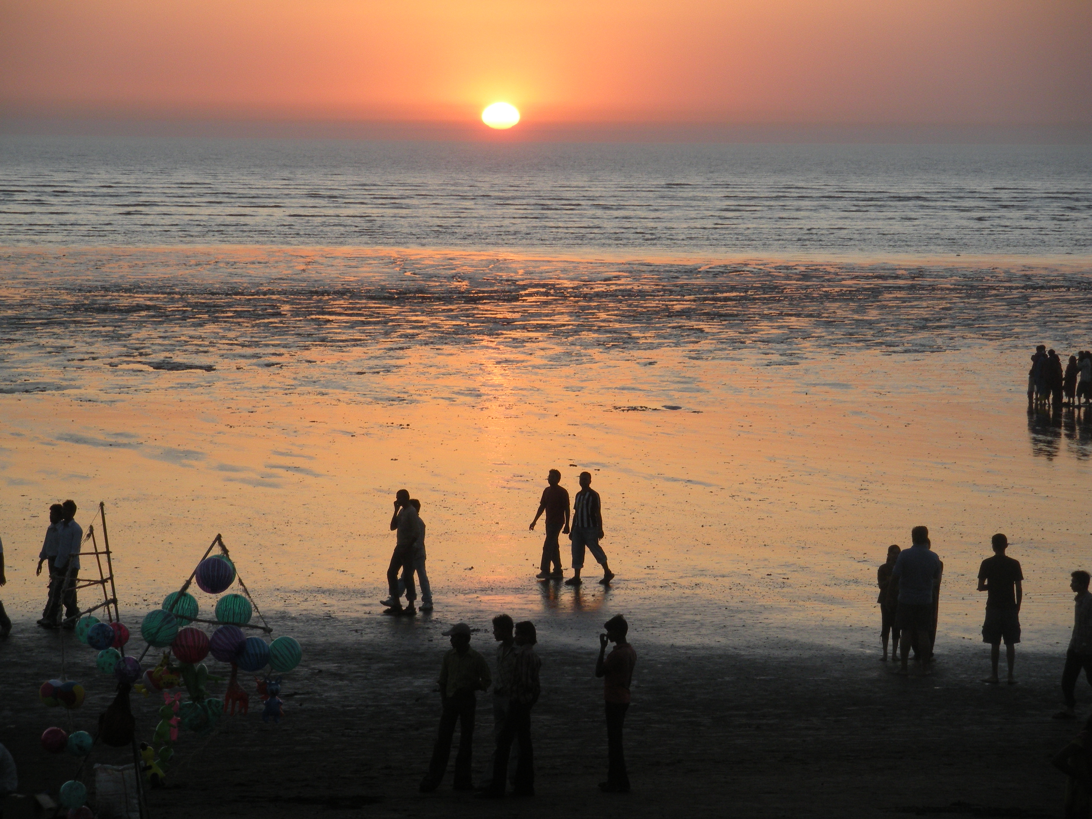 The silent eve at the beach ....giving the sun a goodnight speech.